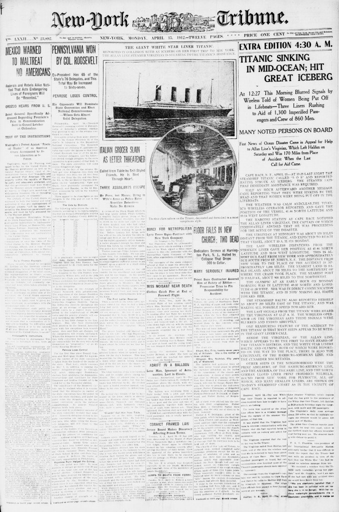 New York Tribune – April 15th, 1912